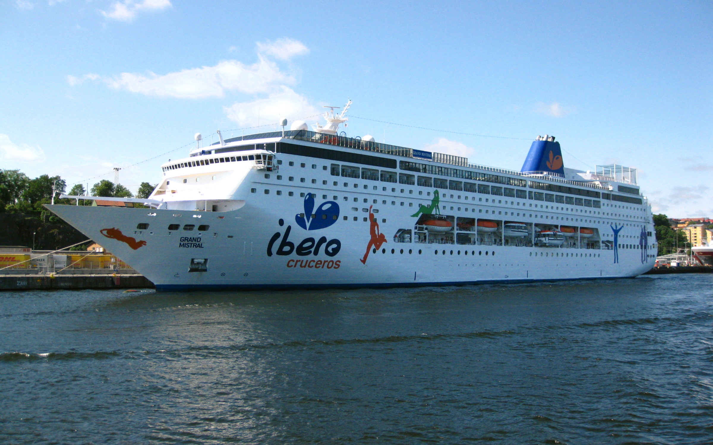 Cruise ship Grand Mistral